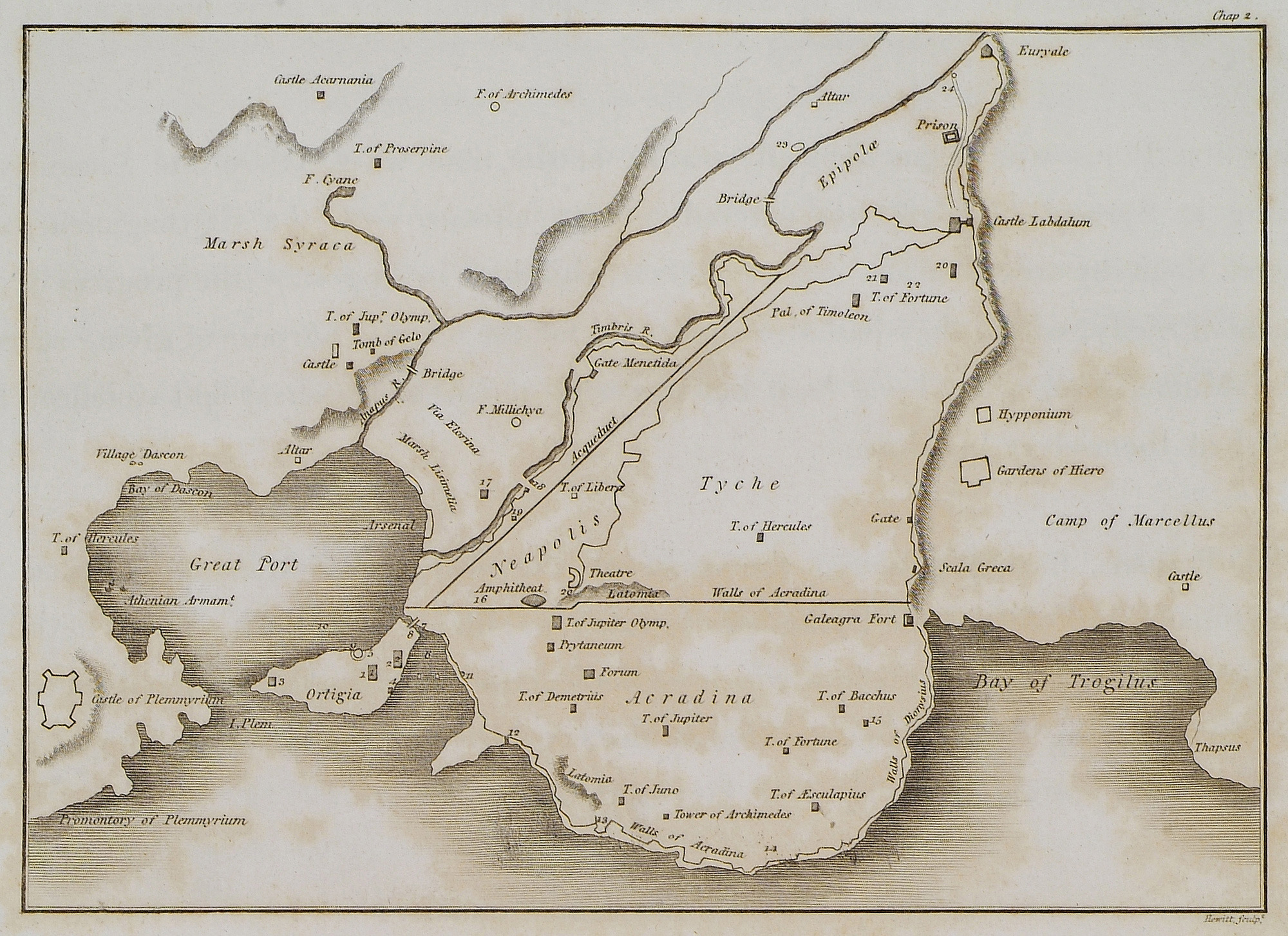 William Wilkins. The Antiquities of Magna Graecia, London, Longman, Hurst, Orme and Rees, MDCCCVII (1807).